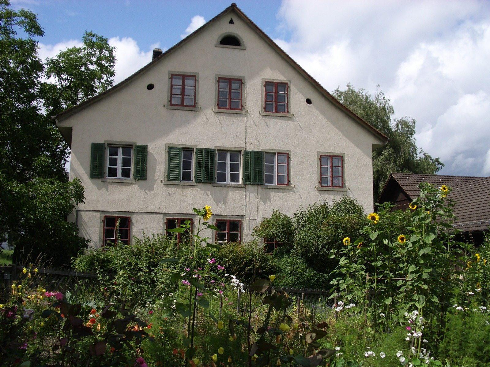 Zurich-Altstetten ZH, Switzerland